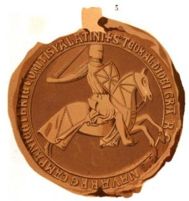 Theobald II of Navarre